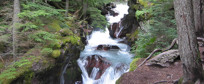 Glacier National Park, Montana, USA. Avalanche Creek on the Avalanche Lake Trail